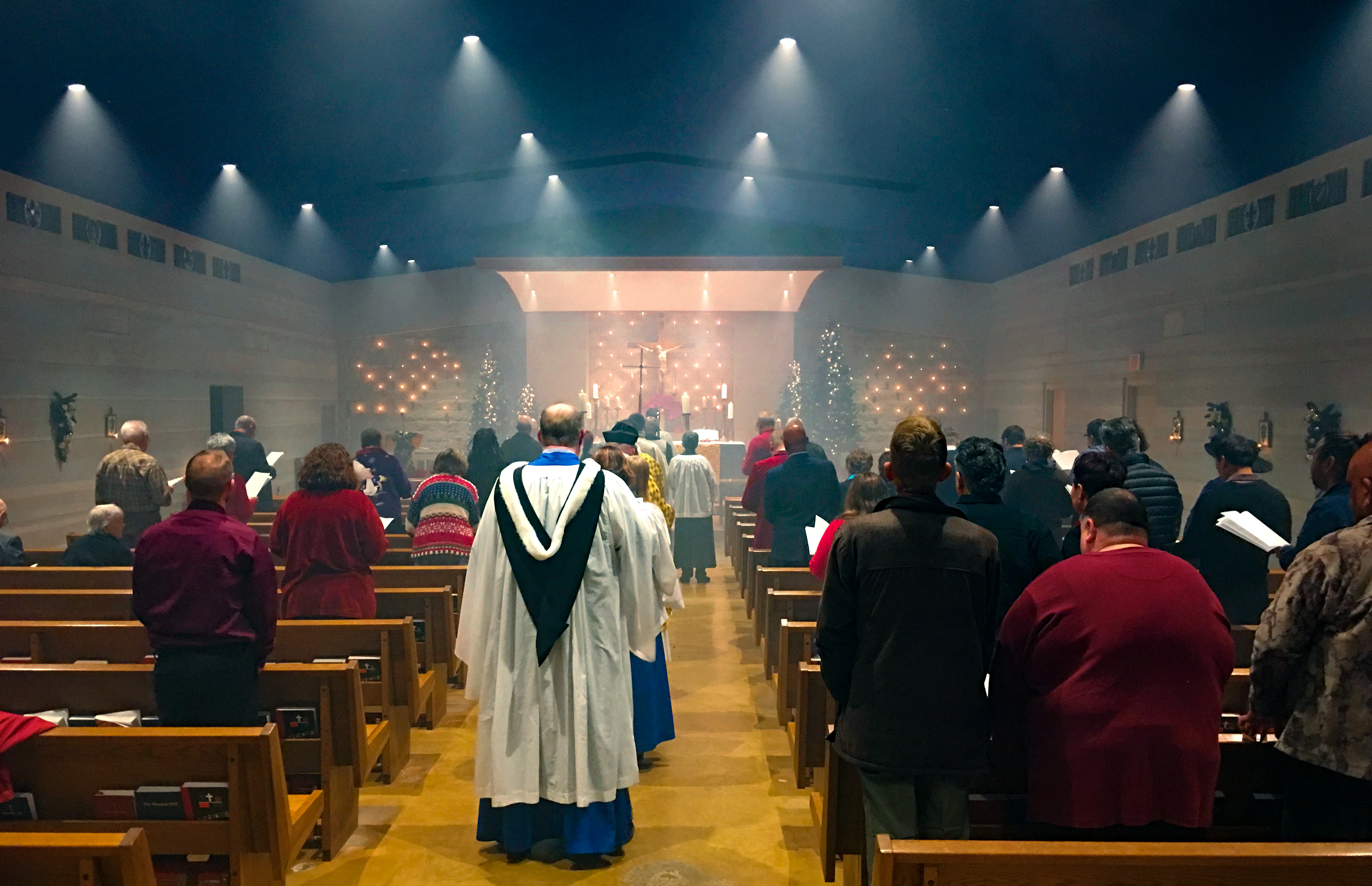 Procession with choir and incense from midnight Mass 2016 Christmas Eve services at St. Mary's Episcopal Church in Phoenix, Arizona.